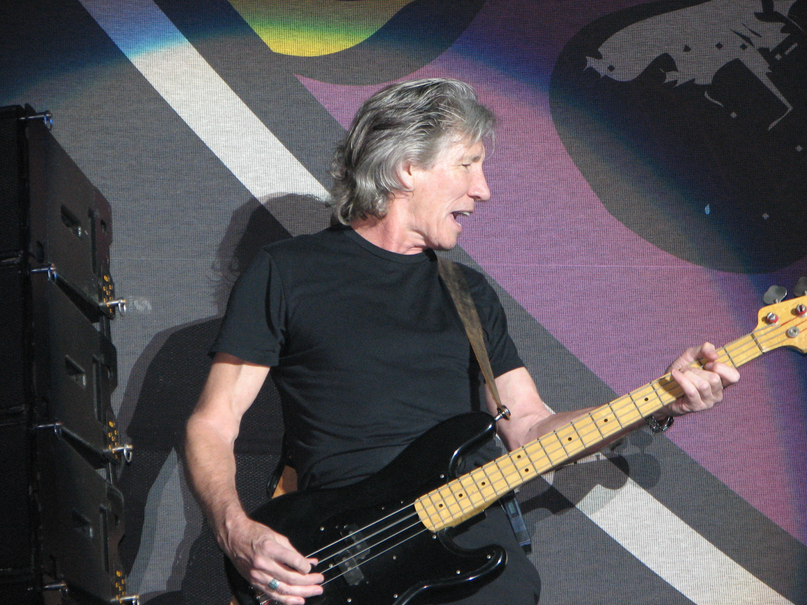 Roger Waters (ex-Pink Floyd) performing at Arrow Rock Festival, june 10, 2006